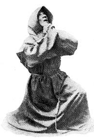 Spanish Actor Rafael Calvo Revilla (1844-1895)